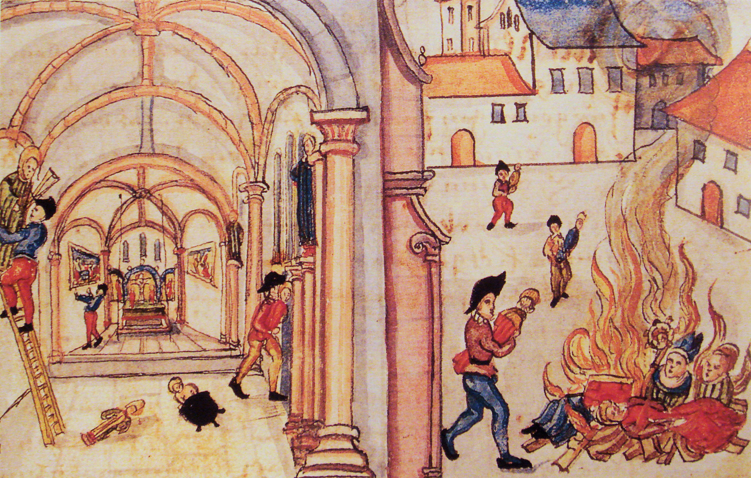 Destruction of icons in Zurich 1524.